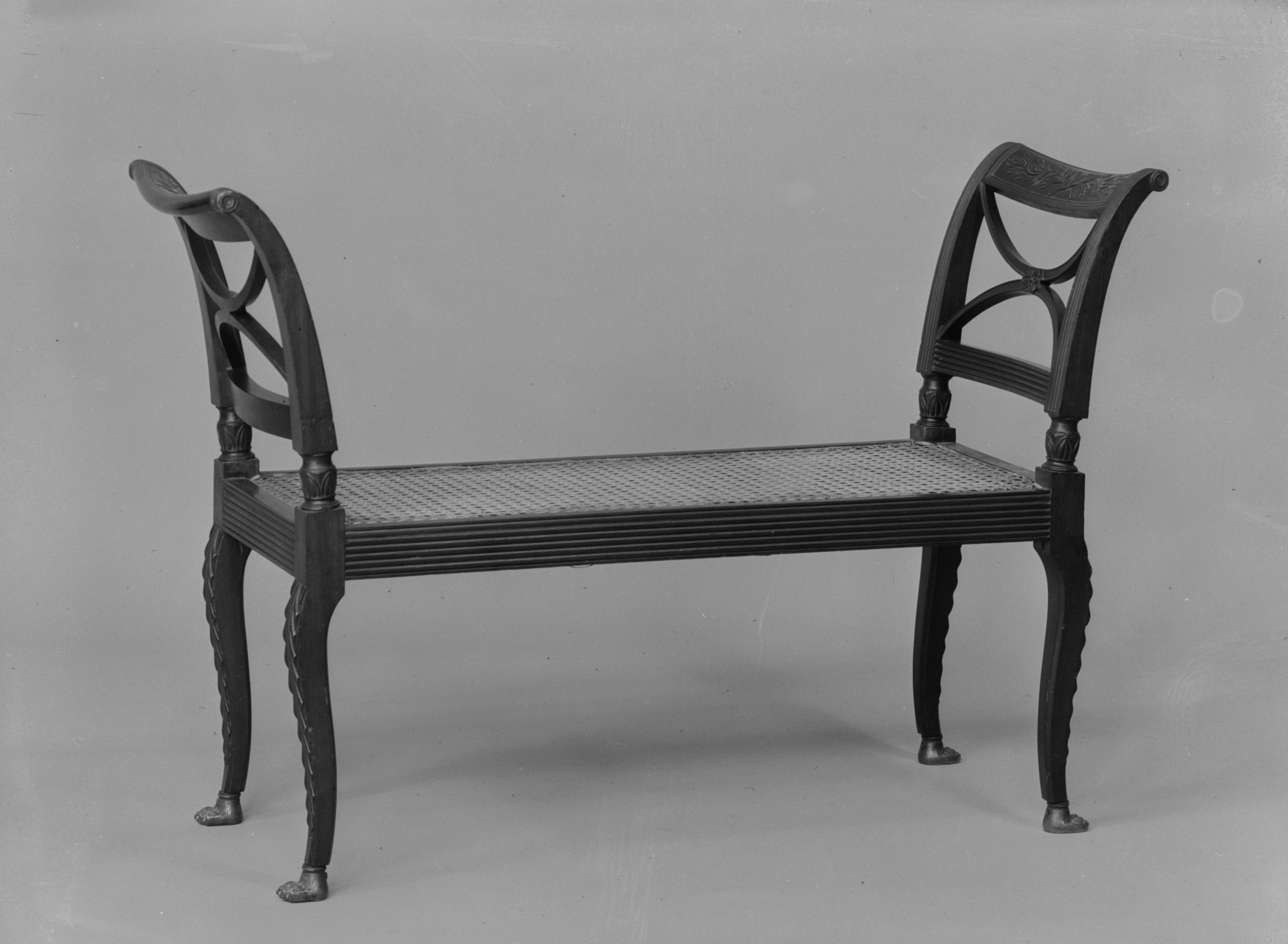 American; Window seat; Furniture